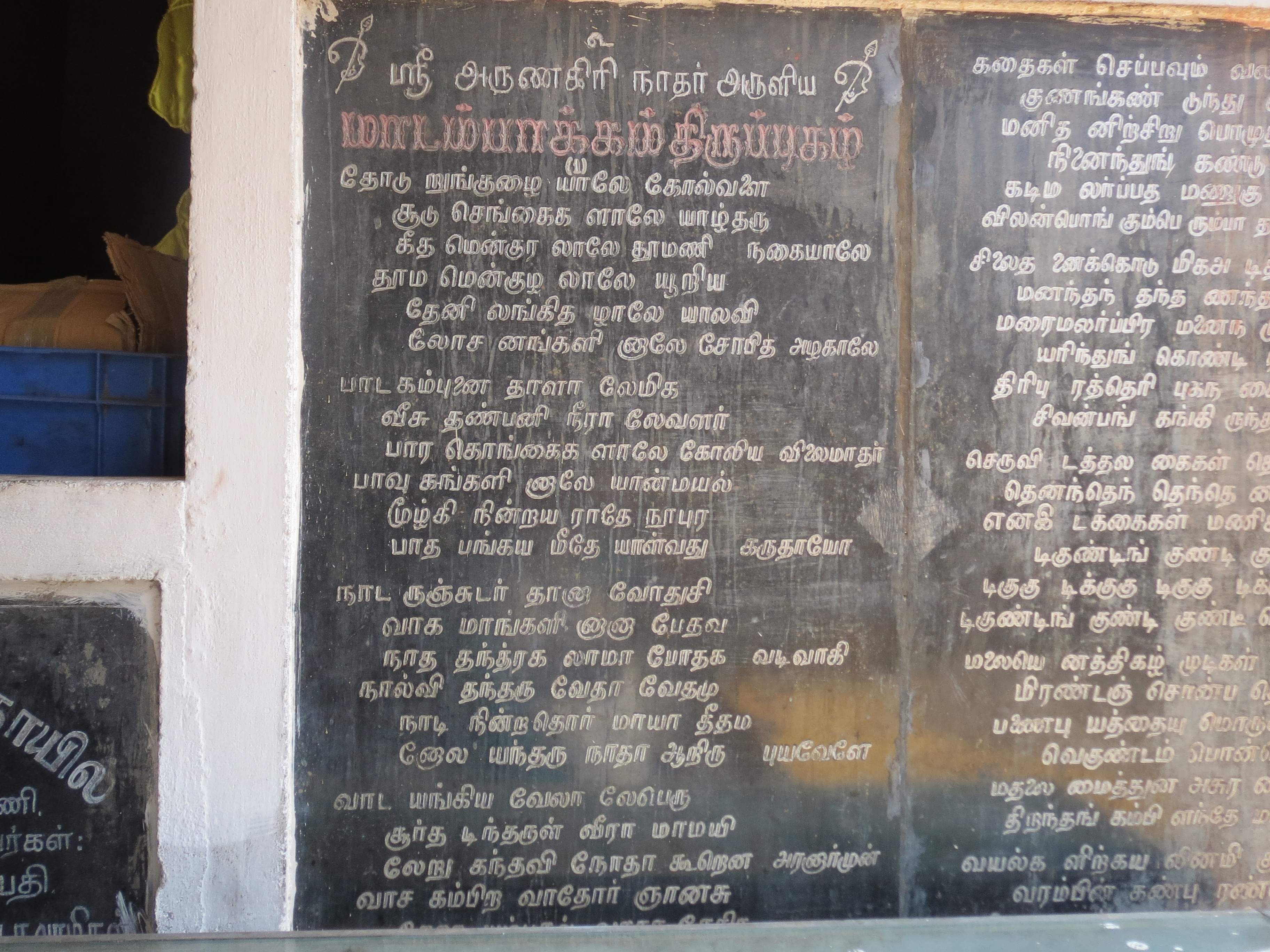 Thirupugazh songs mentioning Thenupureeswarar koil are inscribed on the wall of Thenupureeswarar koil at Madampakkam near Tambaram. Tamil: அருணகிரிநாதர் திருப்புகழில் மாடம்பாக்கம் தேனுபுரீசுவரர் கோயில் குறிப்பிடப்பட்டுள்ளது. அப்பாடல்கள் தேனுபுரீசுவரர் கோவில் சுவற்றில் பொறிக்கப்பட்டுள்ளன.